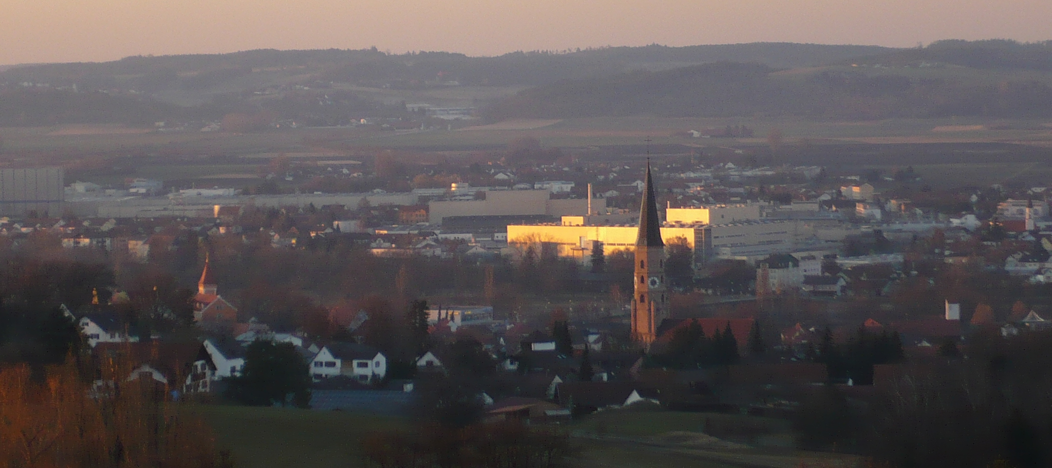 Photo: Dingolfing